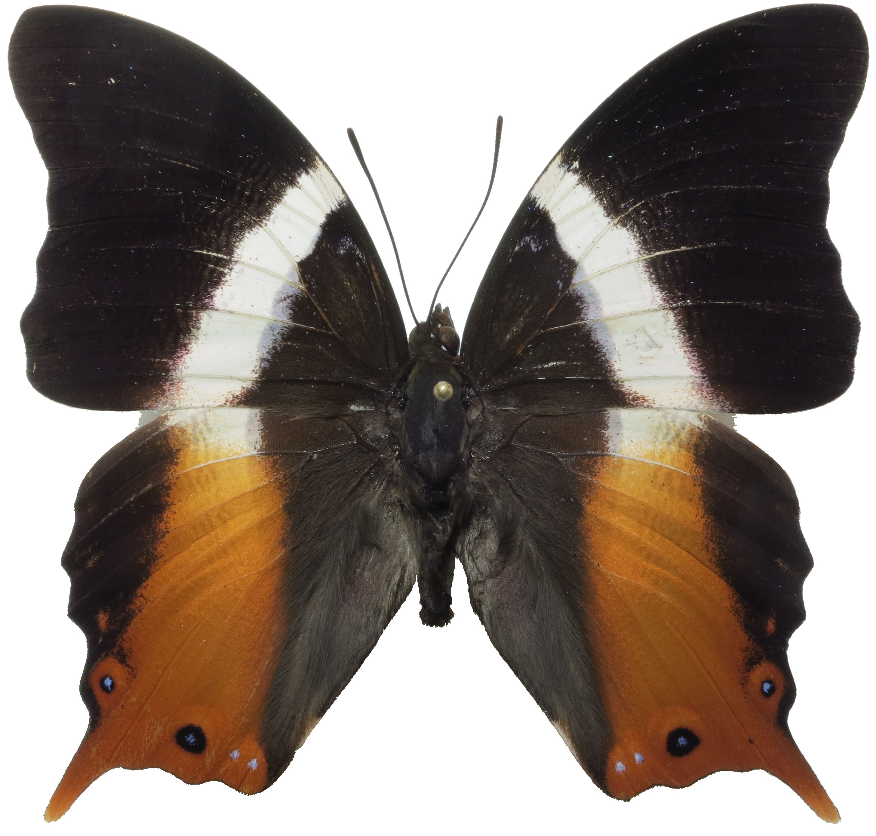 Palla ussheri from CAR